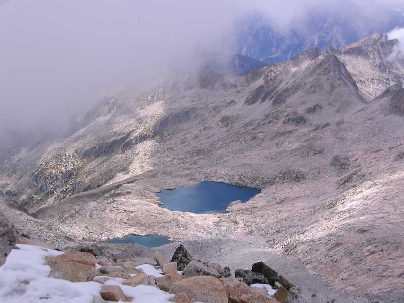 Ibones de Coronas from the summit of Aneto (3404 m) in the Pyrenees mountains (Spain).